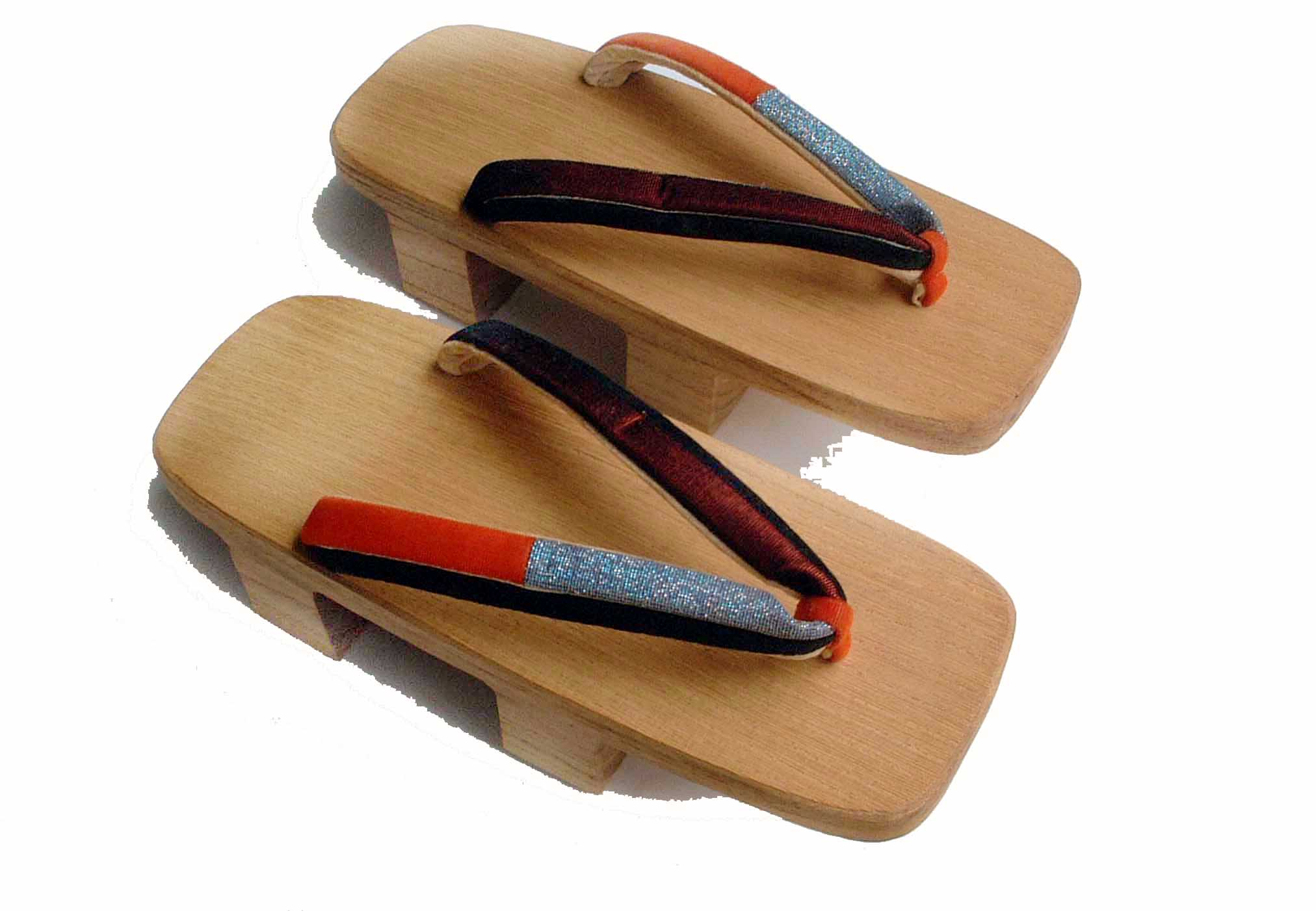 Geta, photo taken in Japan